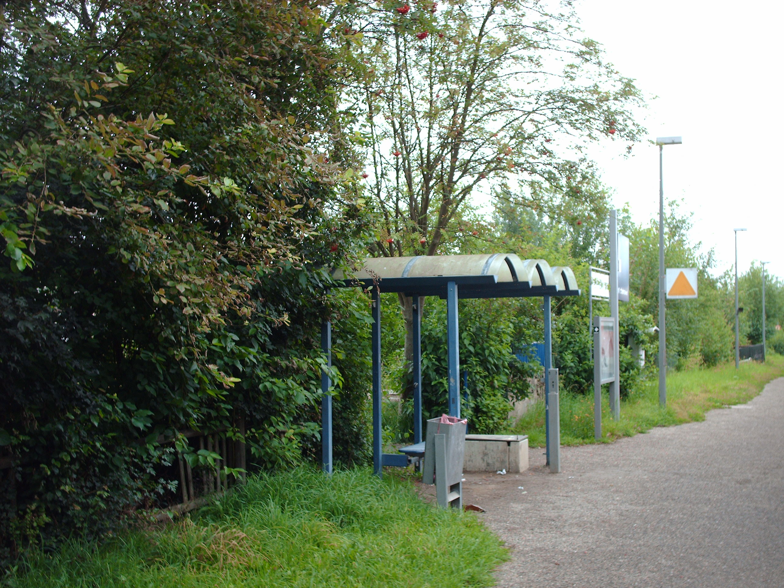 Westheim (Westf) station, Marsberg, Germany check usage